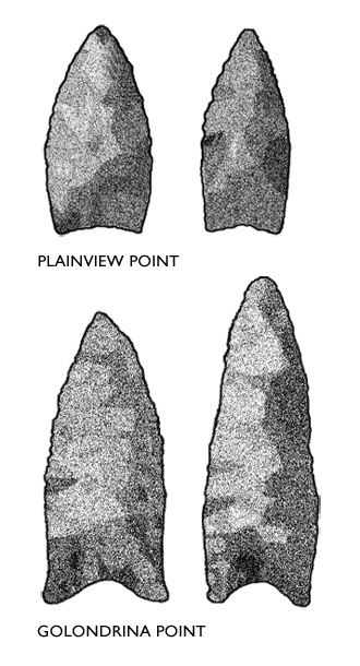 Graphic showing the Comparison of Golondrina and Plainview points based roughly on image seen at